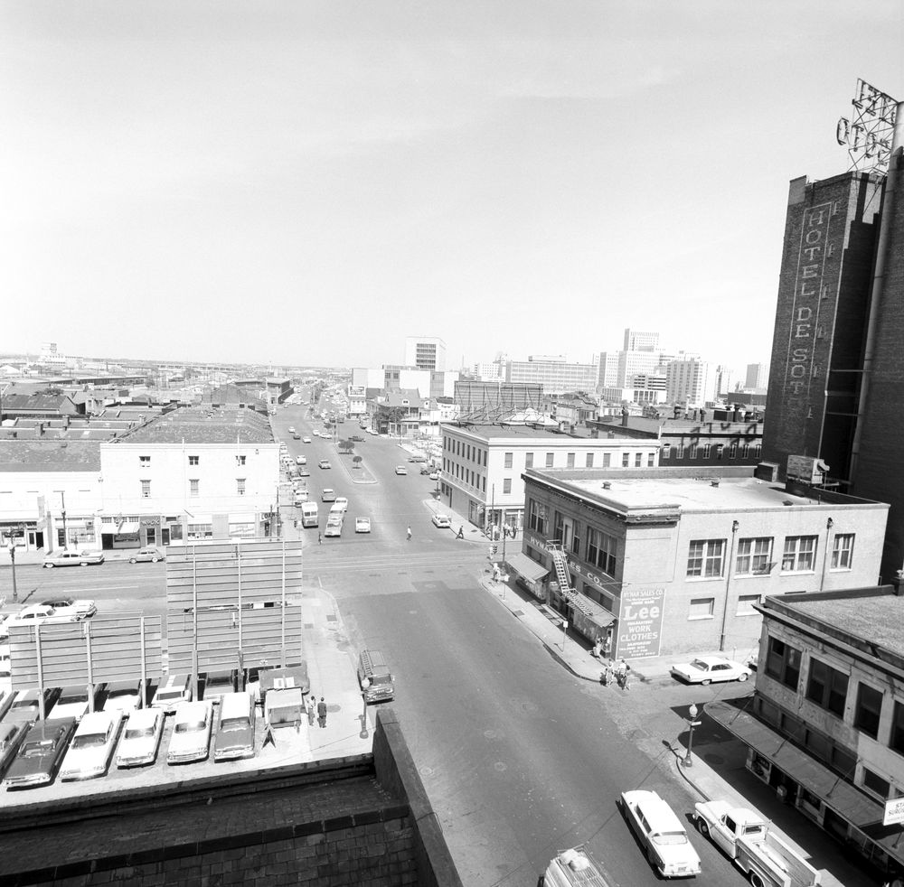 New Orleans, 4 May 1962 Original caption: "Aerial view of New Orleans, Louisiana, as White House Communications Agency (WHCA) staff set up equipment for President John F. Kennedy’s visit. Hotel De Soto is visible at right." Photograph by Harold Sellers View is looking lakewards on Poydras Avenue from the 800 block. Intersection with Baronne Street at center. Shows street before section was widened, and before the renovation of the De Soto (Le Pavillon) Hotel which gave it a new facade and moved the main entrance from Baronne to Poydras. Auto parking lot seen at bottom left. Back right distance can be seen the government building complex around Duncan Plaza.